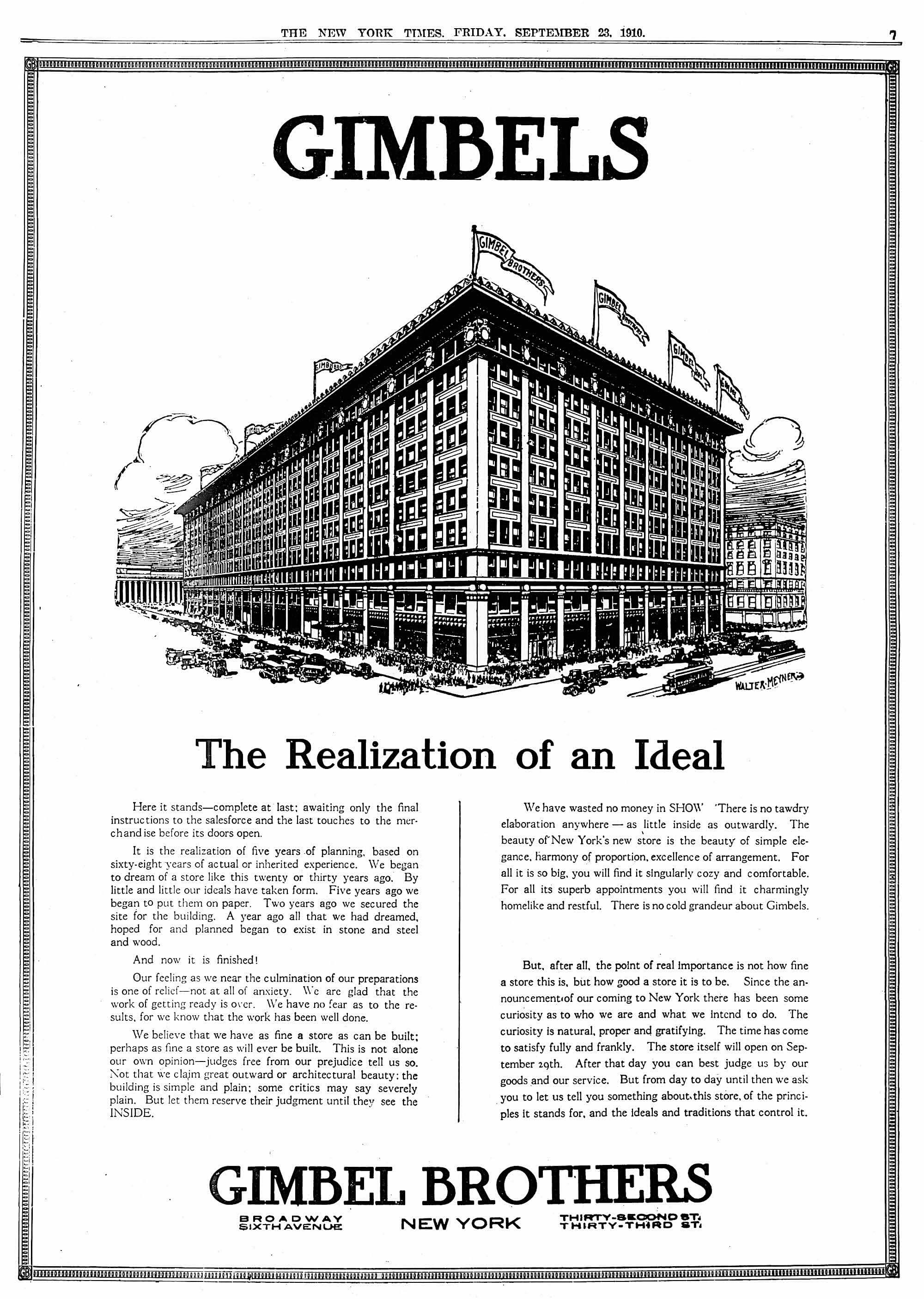 Advertisement announcing new Gimbels department store in The New York Times (September 23, 1910).